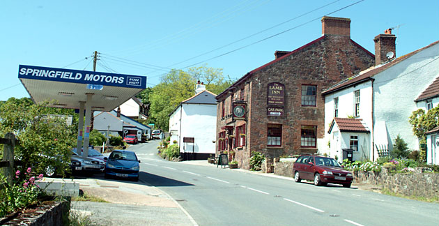 Longdown Village Centre. Longdown centre, depicting the Lamb Inn, the local garage and the lane to Holcombe forking off to the right.